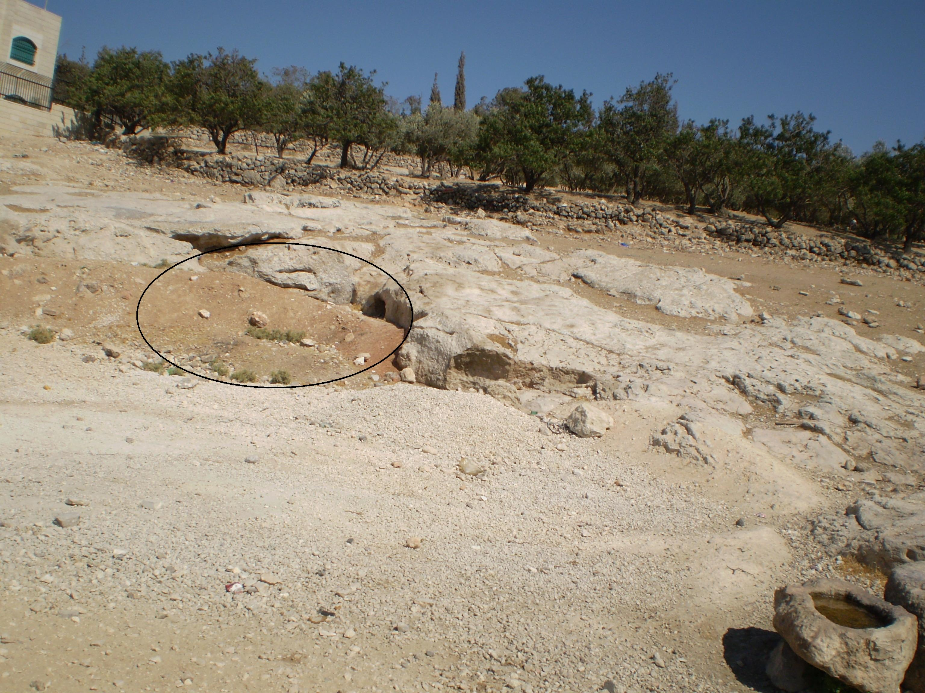 kever_amos